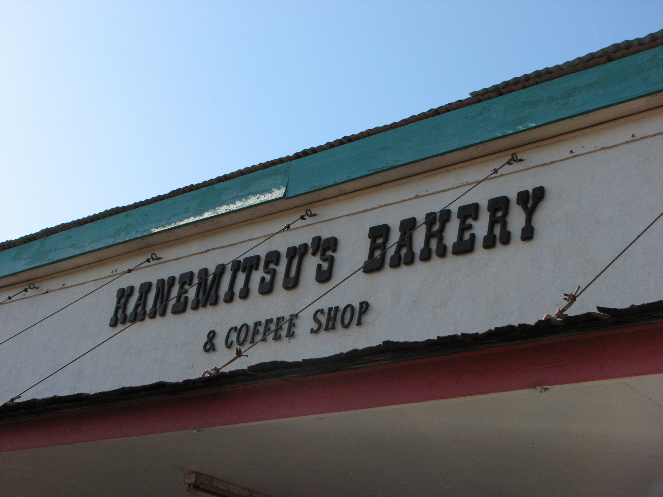 Kanemitsu's Bakery in Kaunakakai on the Hawaiian island of Molokai is an 80 year old bakery known for its baked goods and the "hot bread" served out of its back door at night.